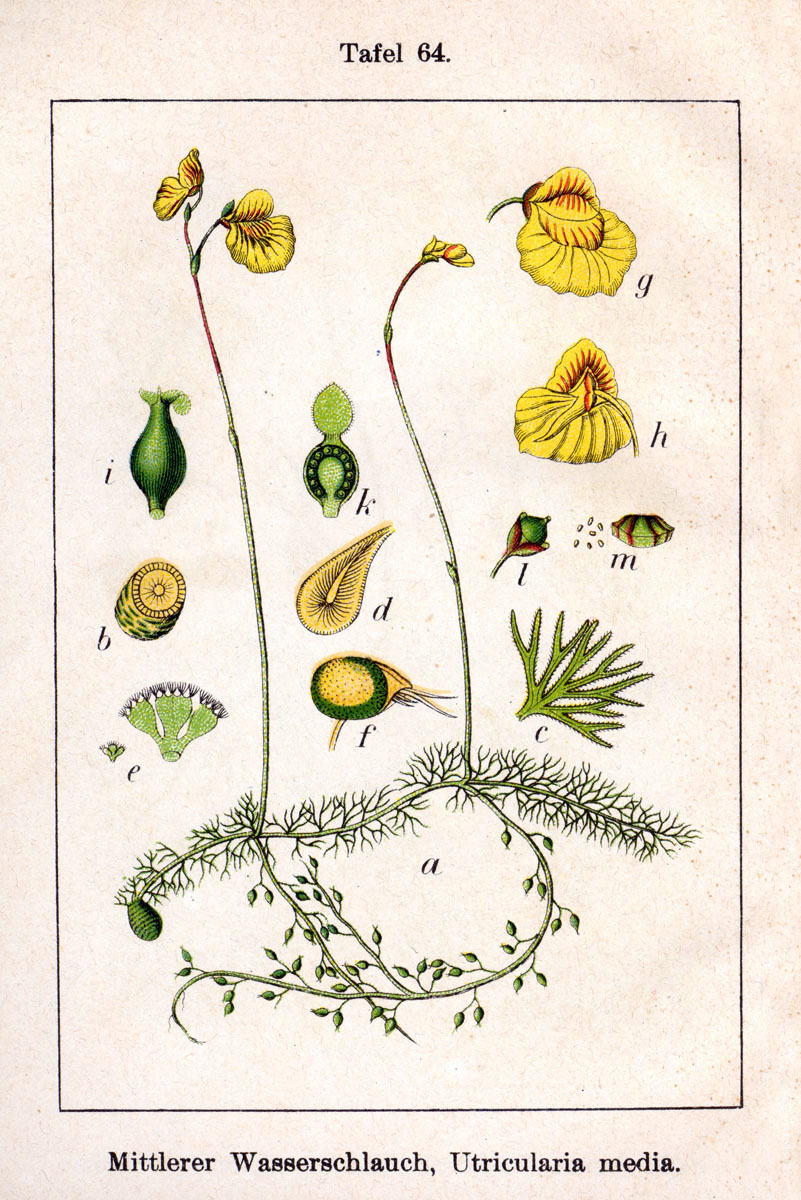 Utricularia intermedia Hayne, syn. Utricularia media Schumach. Original Description Mittlerer Wasserschlauch, Utricularia media